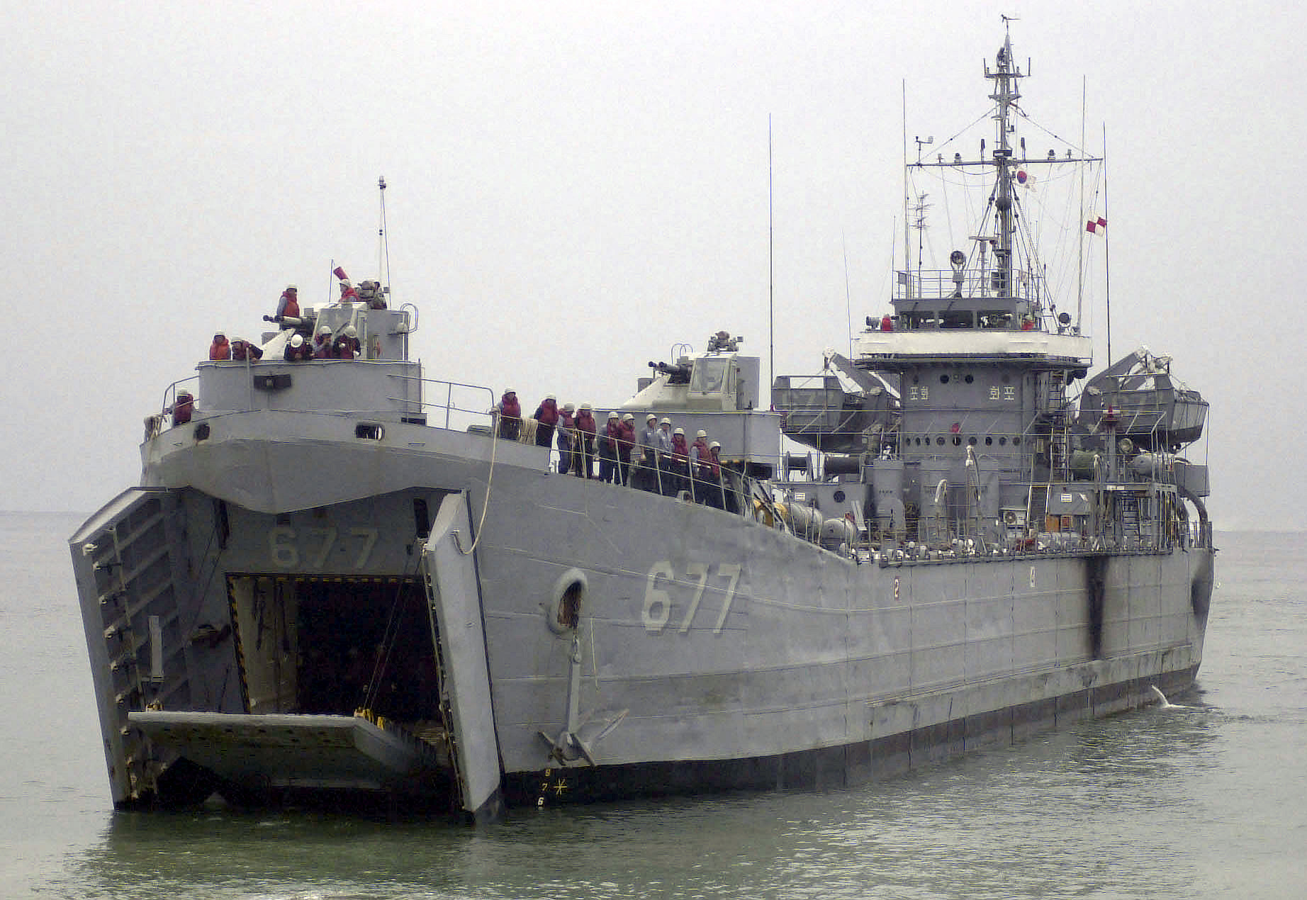 ID: DN-SD-03-13098 Service Depicted: Navy 001029-N-8421M-145 Operation / Series: FOAL EAGLE 2000 Republic of Korea Navy Tank Landing Ship [ROKS Suyeong] (LST 677) lowers its bow ramp on Tak San Ri Beach near Pohang, South Korea.